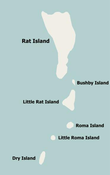 Map of the central islands in the Easter Group, Houtman Abrolhos, Western Australia